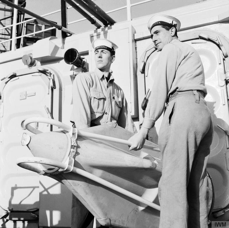 Handling a Seacat missile on board HMS CORUNNA, Rosyth, February 1962.